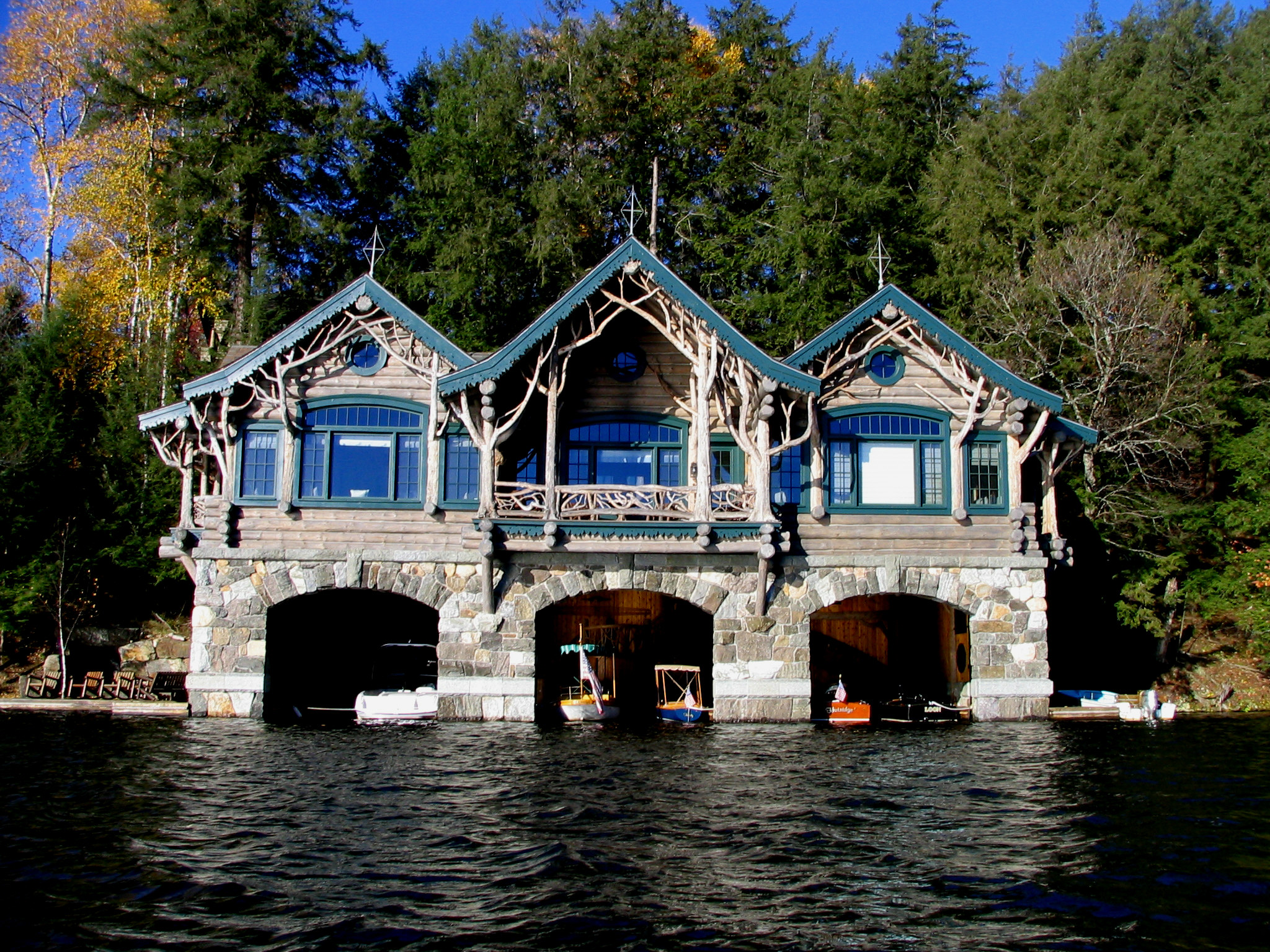 The 2nd boathouse at Camp Topridge. Taken by User:Mwanner 22 October, 2007.